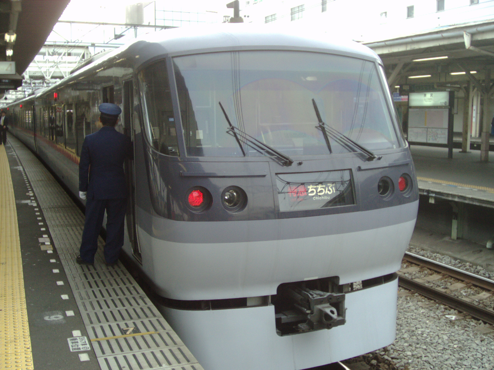 Seibu Railway Type 10000 Limited Express Train.